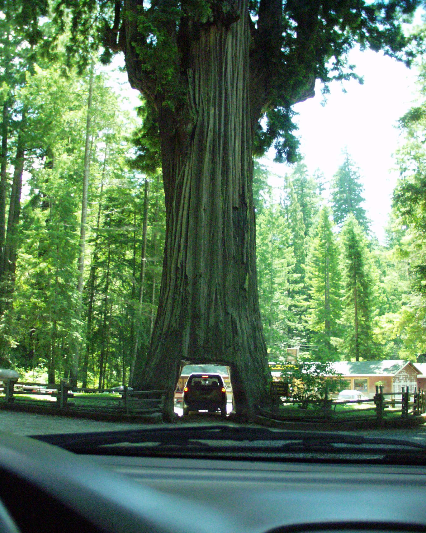 "Drive Through Tree", a Coast Redwood (Sequoia sempervirens) in Leggett, Mendocino County, California.